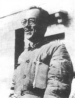 Kang Seng in Yan'an 康生（1898-1975），原名张宗可，字少卿，山东胶南人